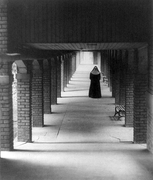 Nun in cloister